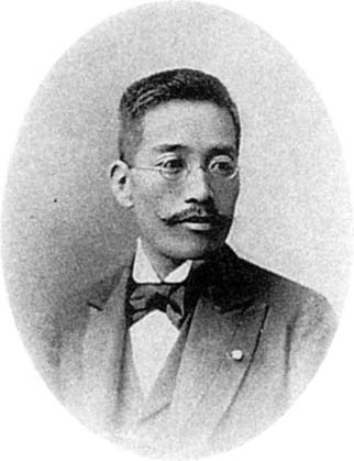 O. Asano, Professor of Electrical Engineering.